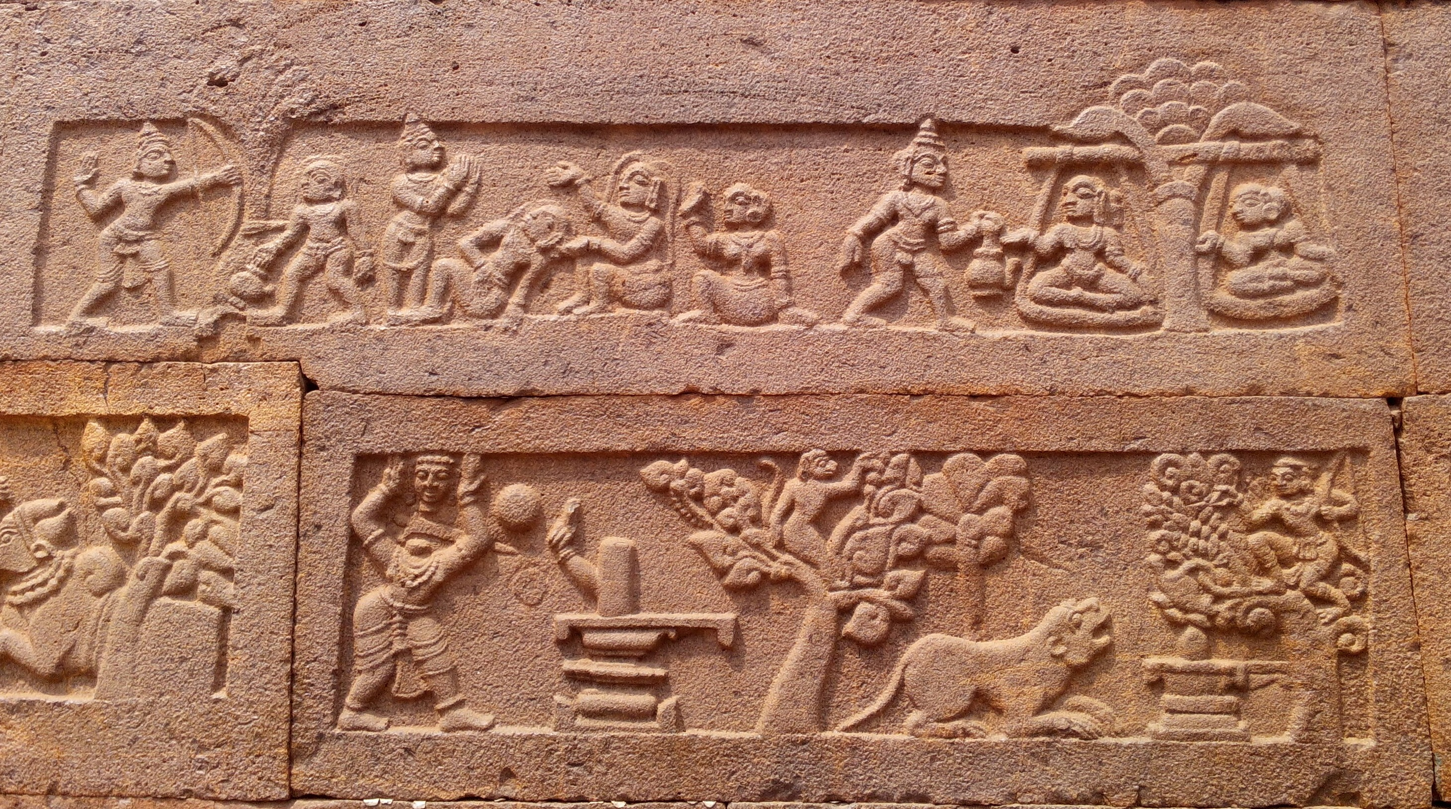 Mallikarjuna Jyotirlinga wall 5